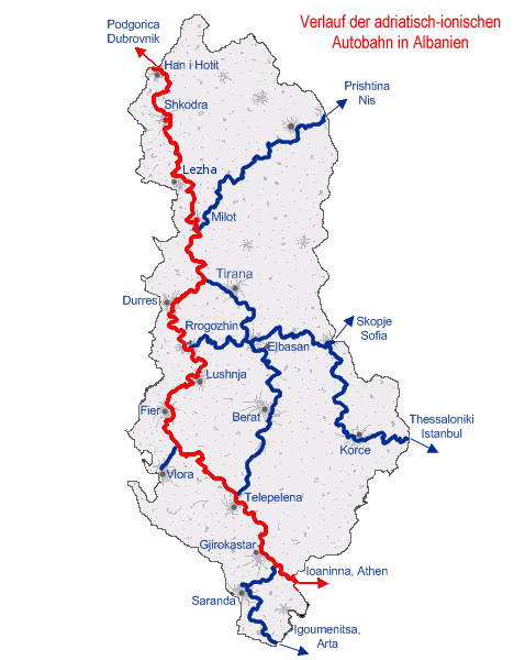 Planned adriatic-ionic highway in Albania